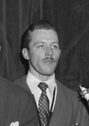 Emmett Carls. This work is from the William P. Gottlieb collection at the Library of Congress. Rights and restrictions.In accordance with the wishes of William Gottlieb, the photographs in this collection entered into the public domain on February 16, 2010.